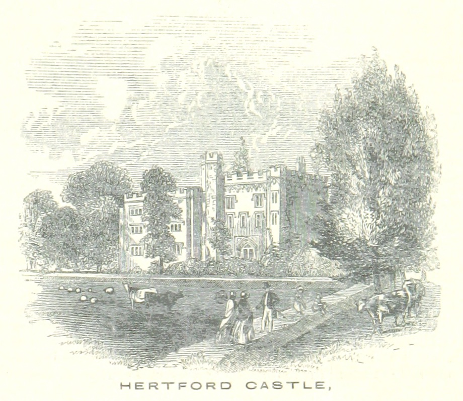 Hertford Castle. The remodelled 16th-century gatehouse, and southern wing added in 1790.